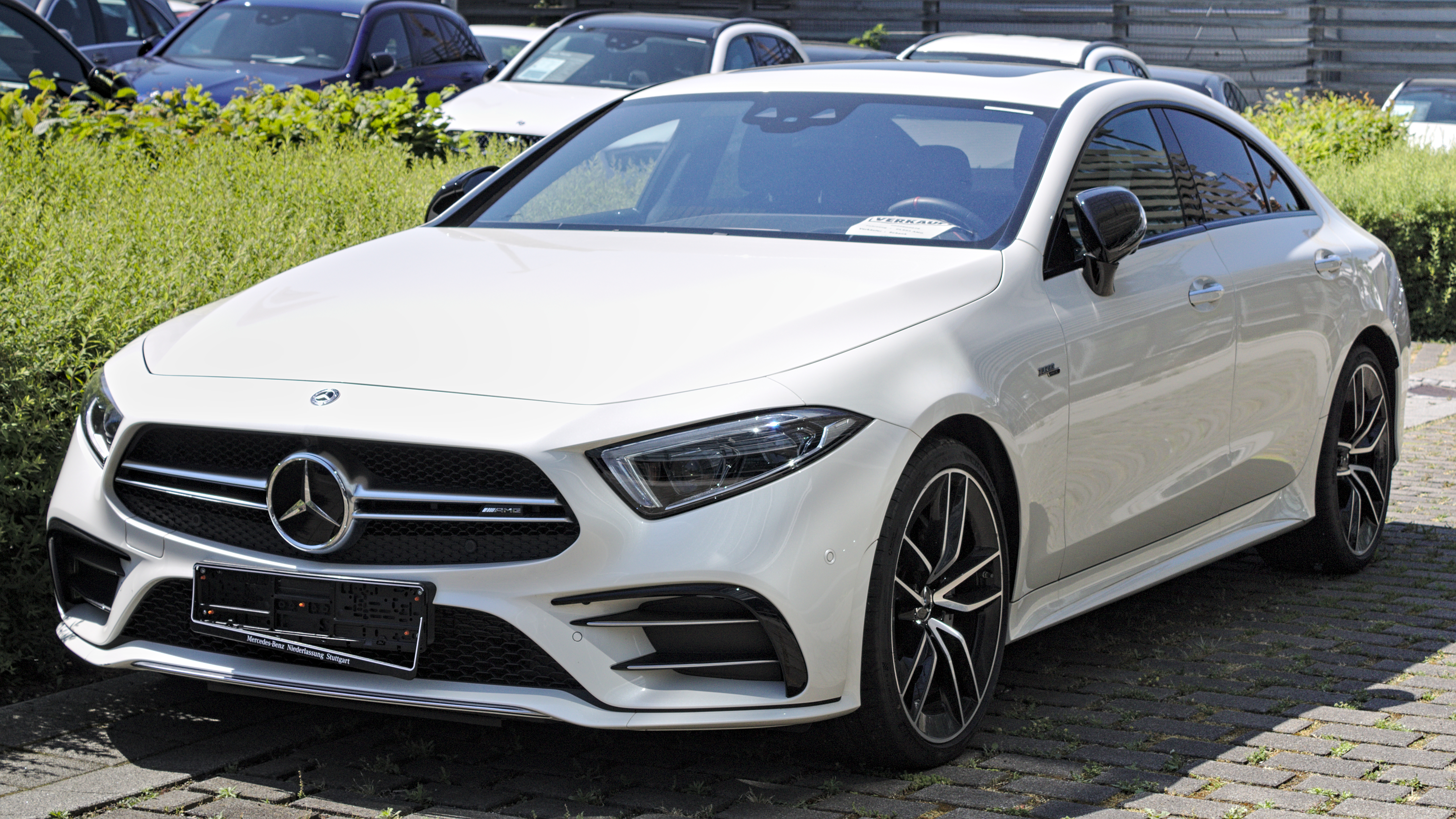 Mercedes-AMG_CLS_53 in Stuttgart